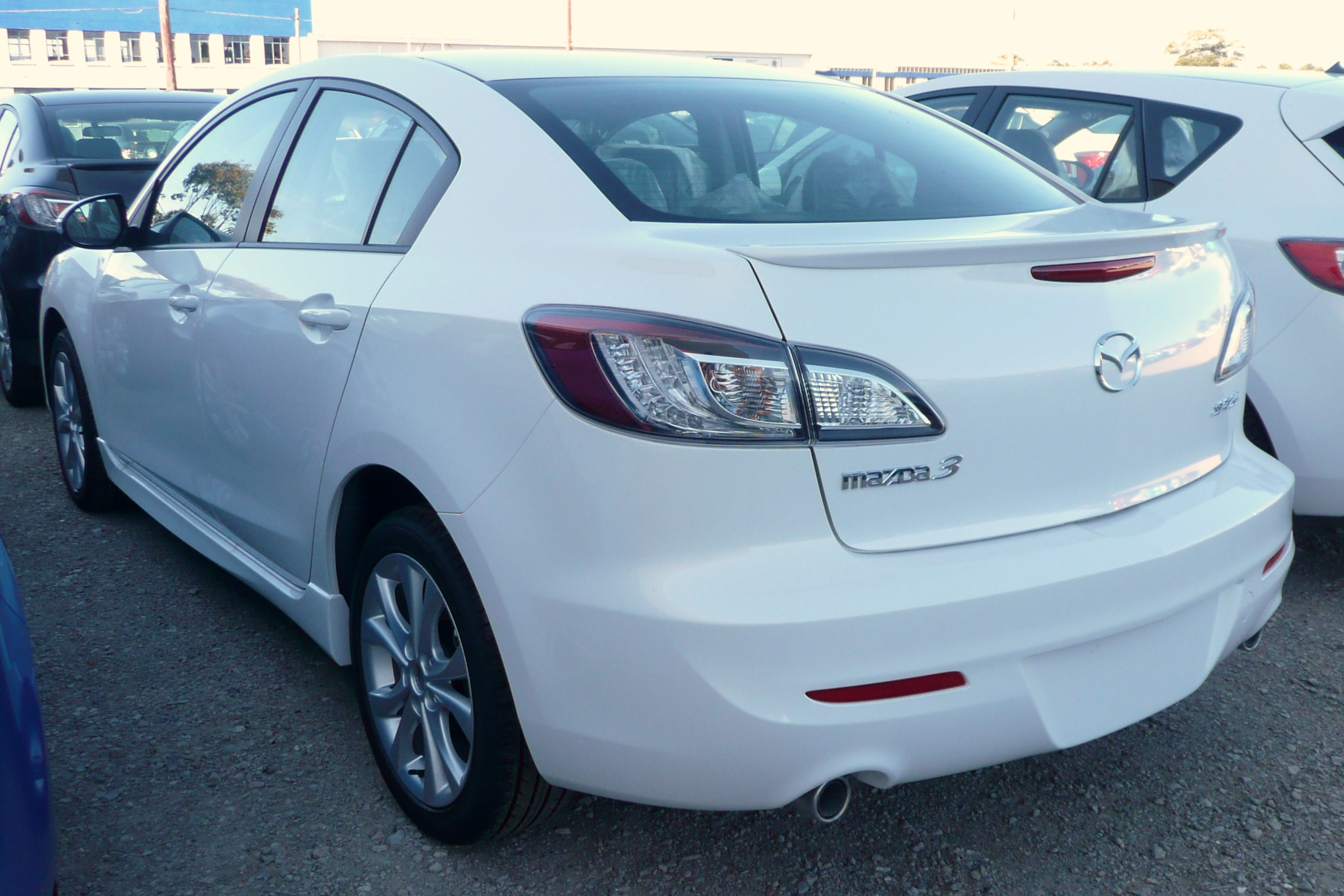 2009 Mazda3 (BL) SP25 sedan. Photographed in Kirrawee, New South Wales, Australia.